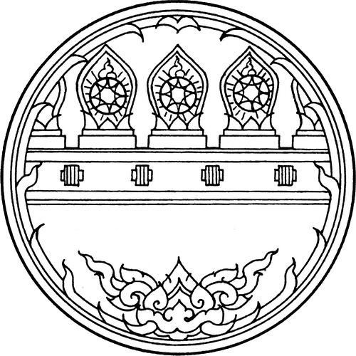 Provincial seal of Kamphaeng Phet province.